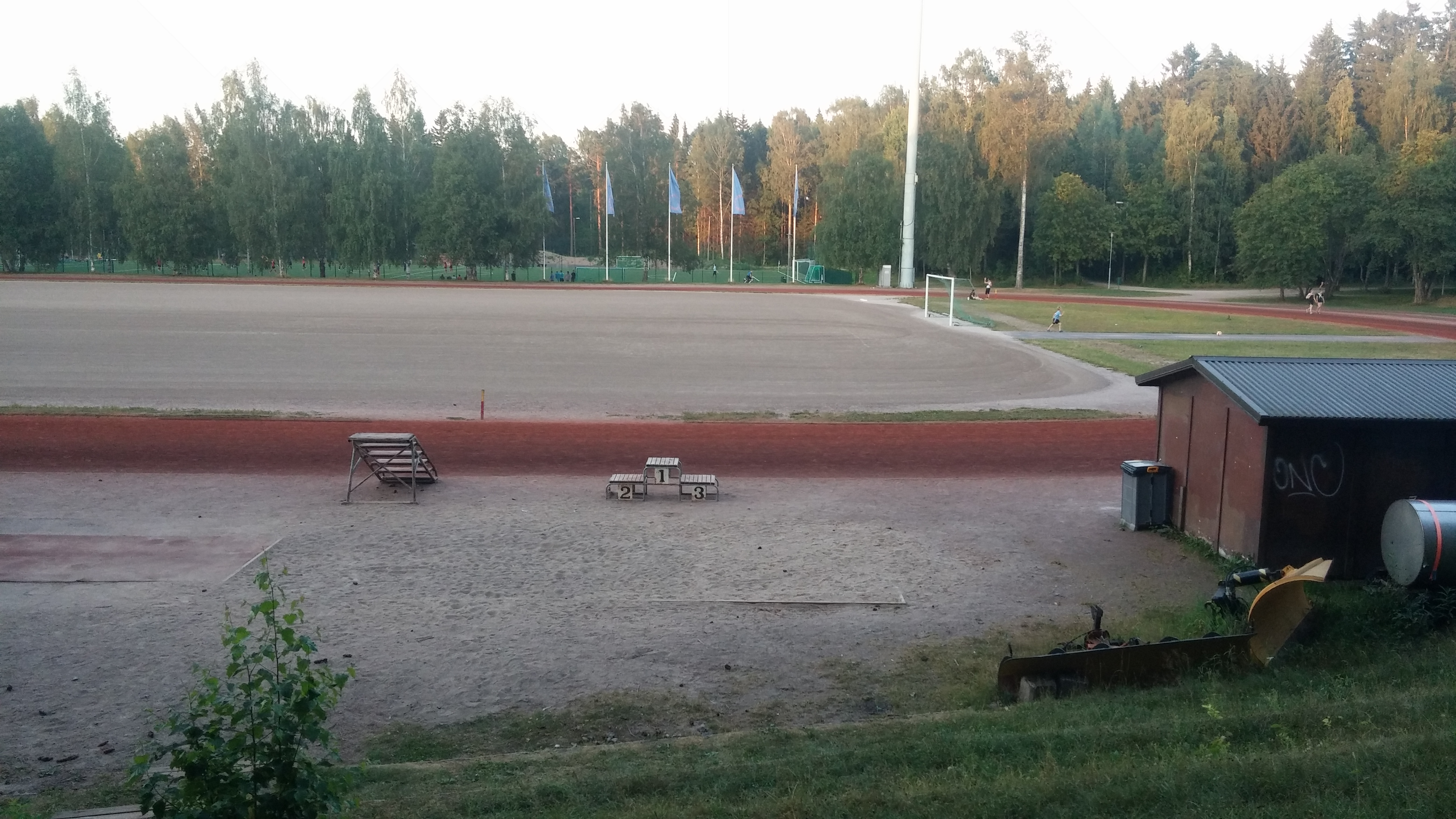 Pirkkolan liikuntapuisto is a sports venue in Helsinki